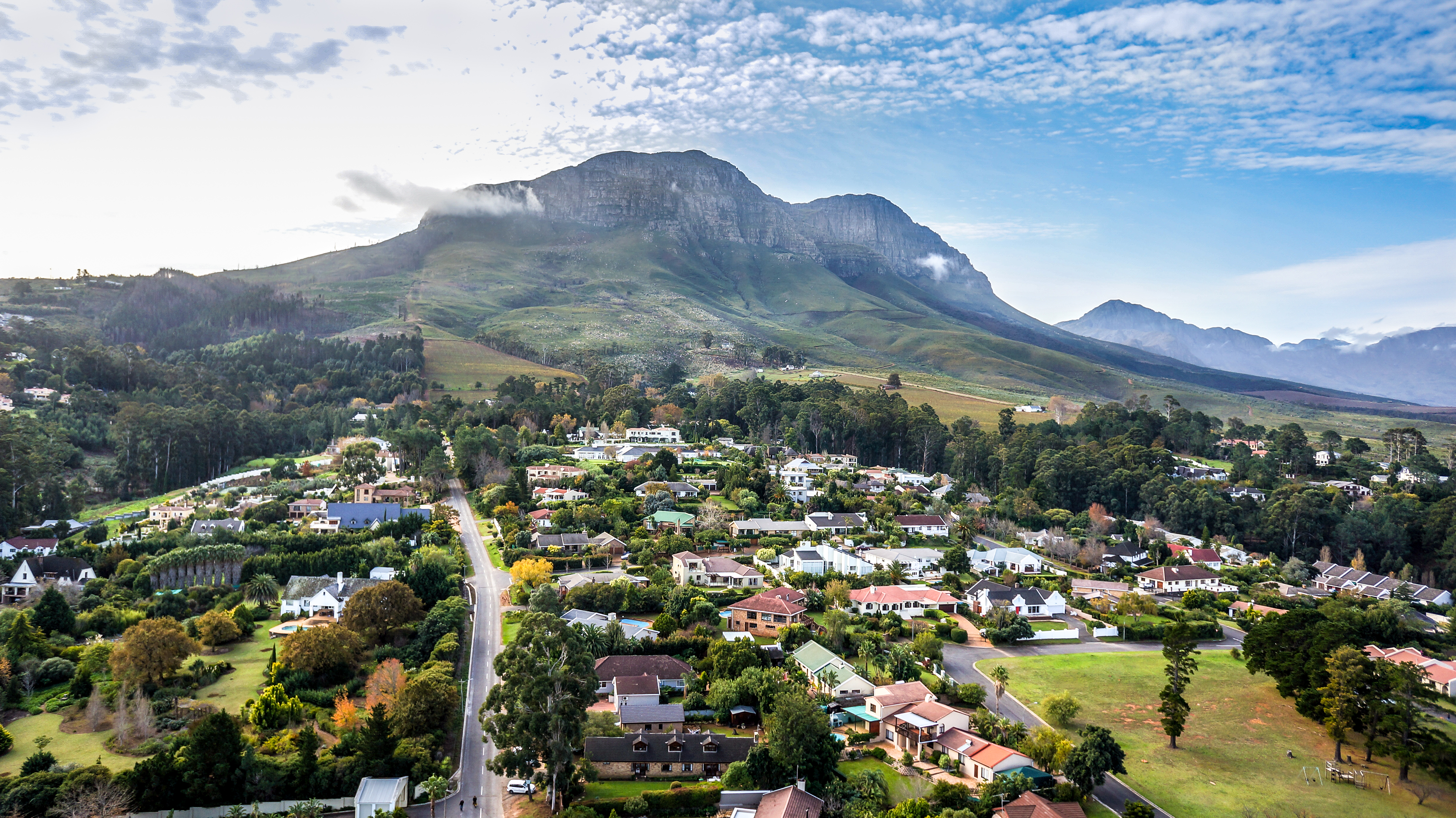 The Helderberg Mountain is part of the Hottentots-Holland mountain range in the Somerset West. The Helderberg Nature Reserve is situated on the slopes of the the Helderberg Mountain overlooking the town of Somerset West, Strand and Gordon's Bay.